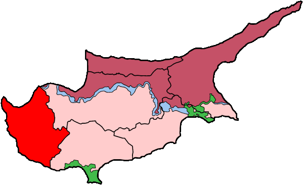 Map of Cyprus, showing the Paphos district (bright red) on western side. The green areas are the UK Sovereign Base Areas, the blue area is the UN buffer zone. Areas north of the buffer zone are controlled by the Turkish Republic of Northern Cyprus (maroon), areas south are controlled by the Greek Cypriot government (pink & red).